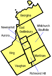 York egion, Ontario